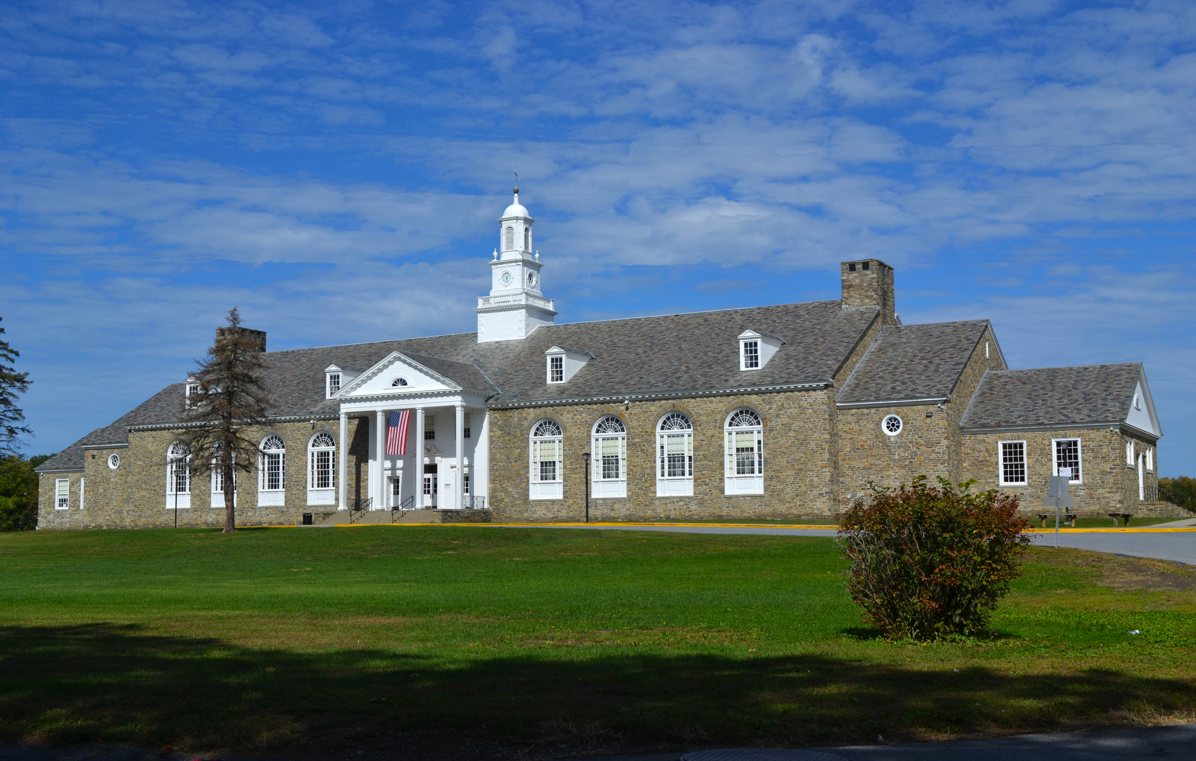 Former Franklin Delano Roosevelt High School, now the Haviland Middle School, in Hyde Park, New York. Southern (front) elevation.